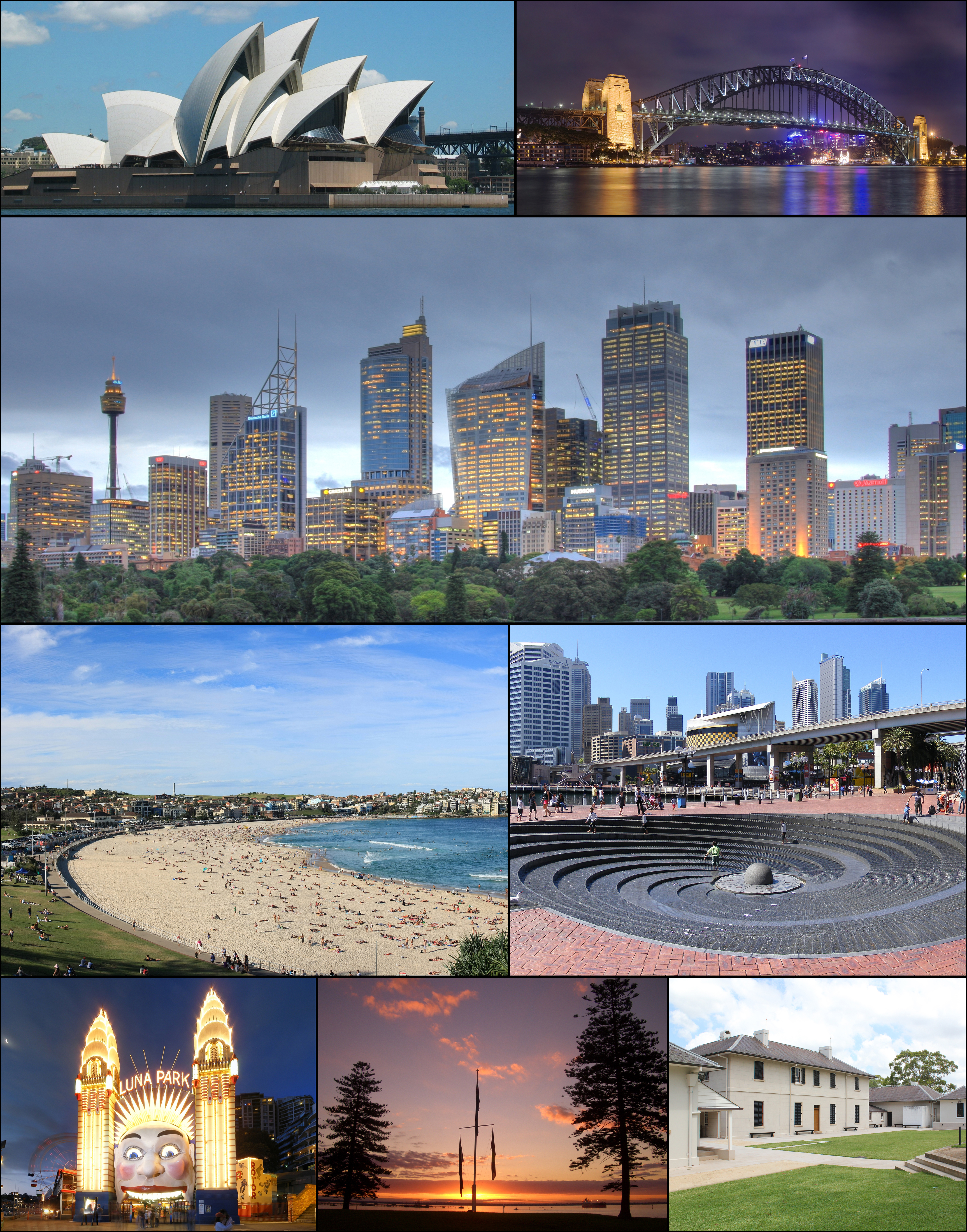 A montage of Sydney